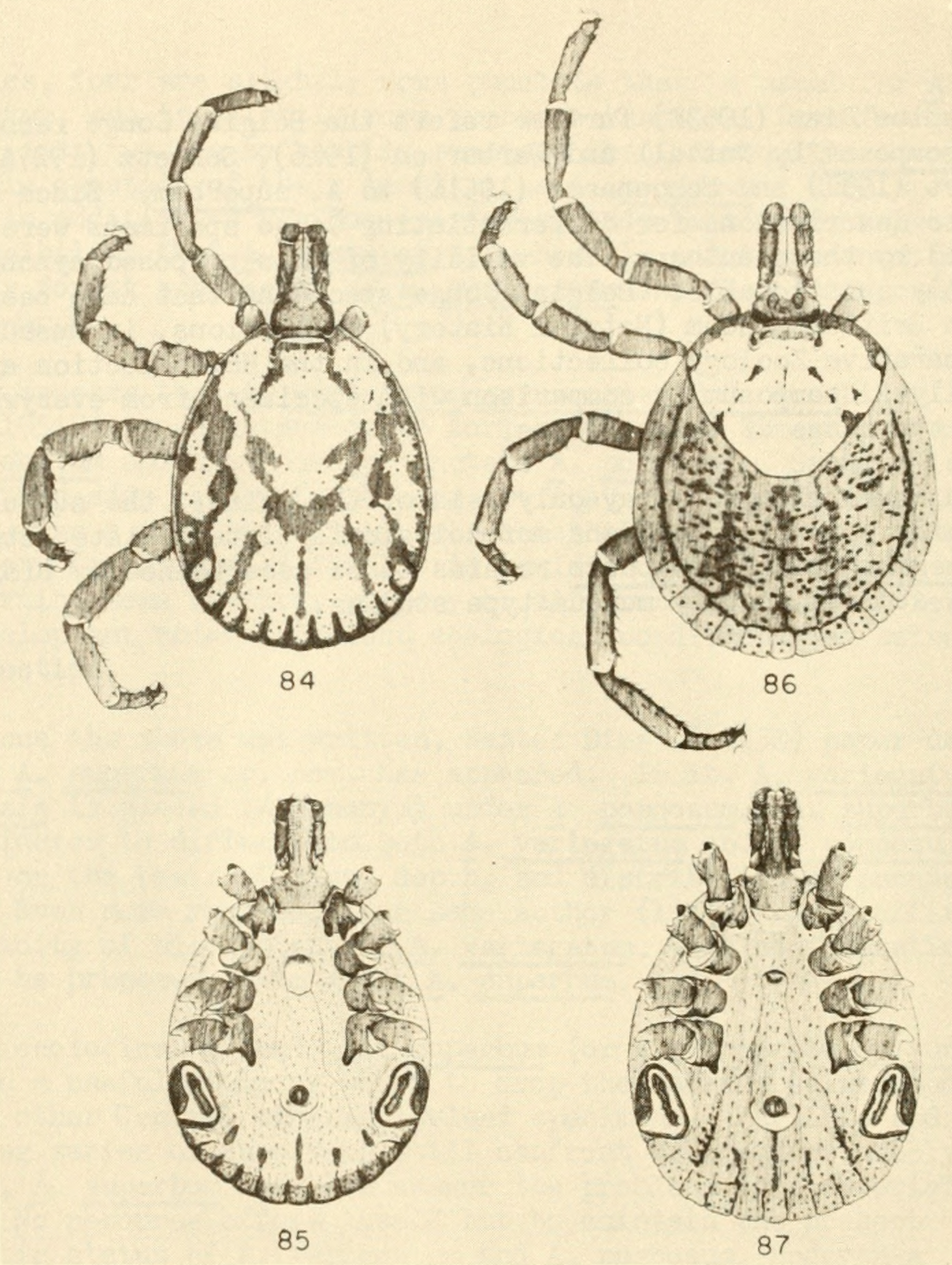 Amblyomma rhinocerotis, male left, female right, dorsal and ventral views, after Hoogstraal 1956